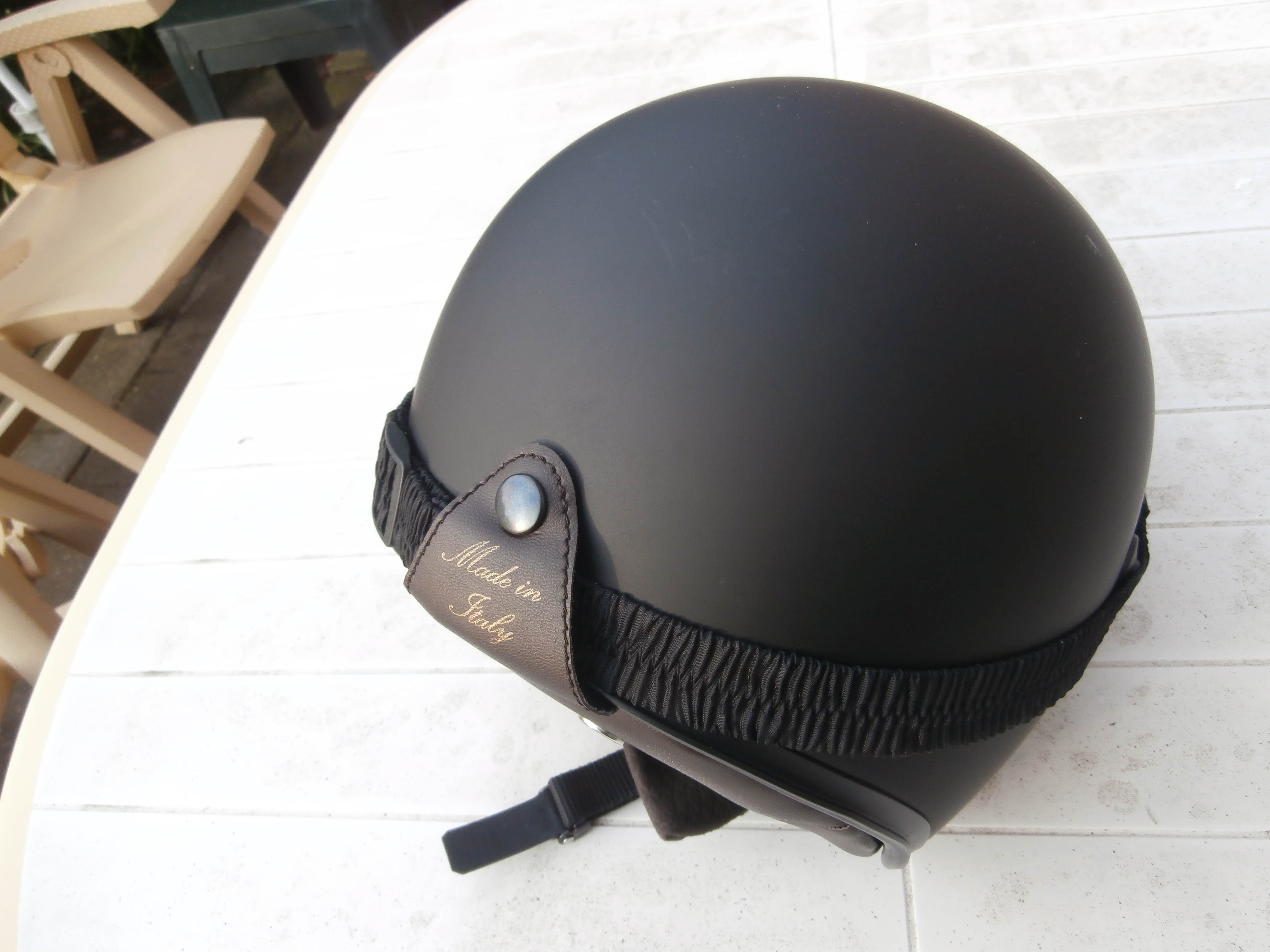 Helmet goggles loop